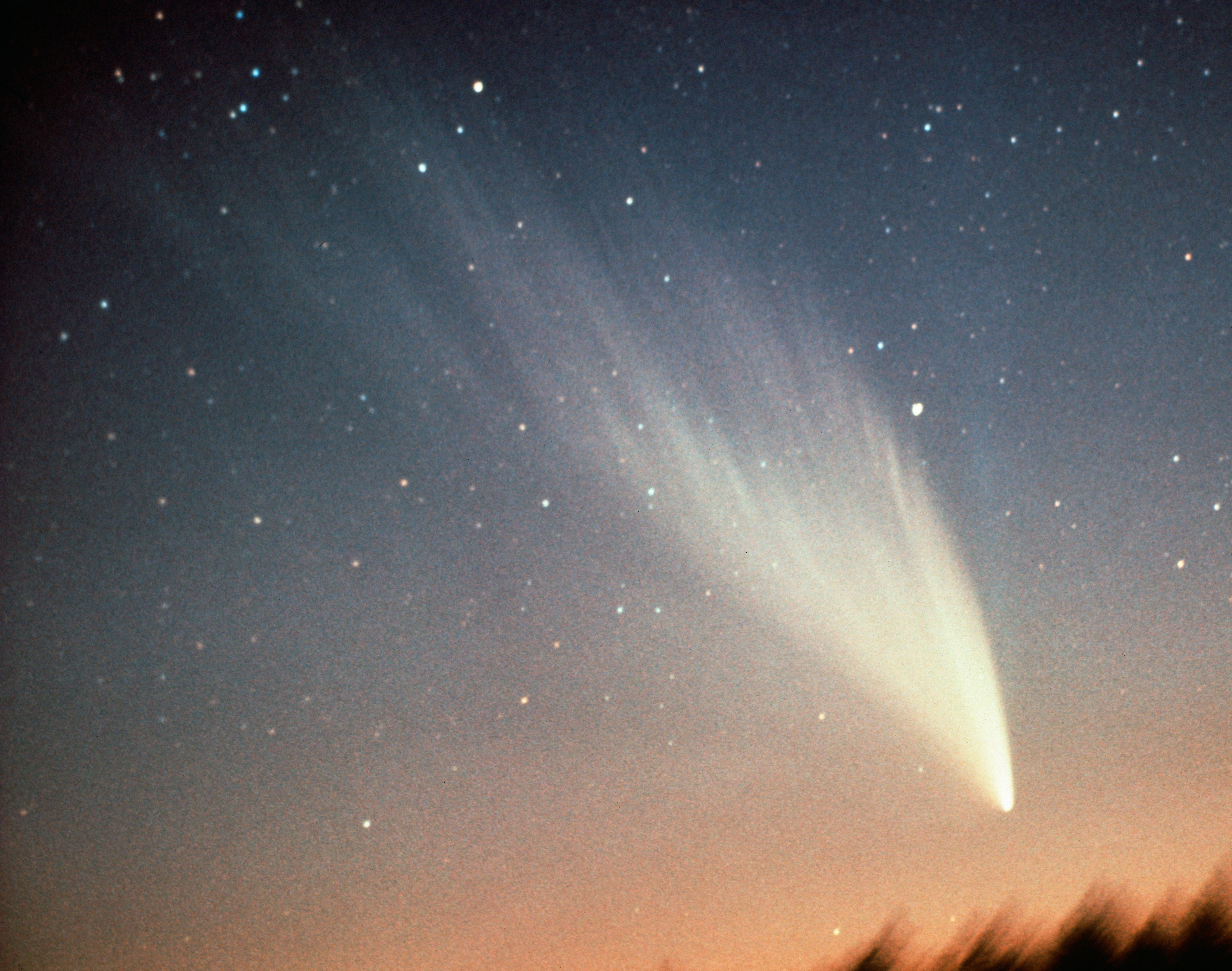 Comet West was discovered in photographs by Richard West on August 10, 1975. It reached peak brightness in March 1976. During its peak brightness, observers reported that it was bright enough to study during full daylight. Despite its spectacular appearance, it did't cause much expectation among the popular media. The comet has an estimated orbital period of 558,000 years.